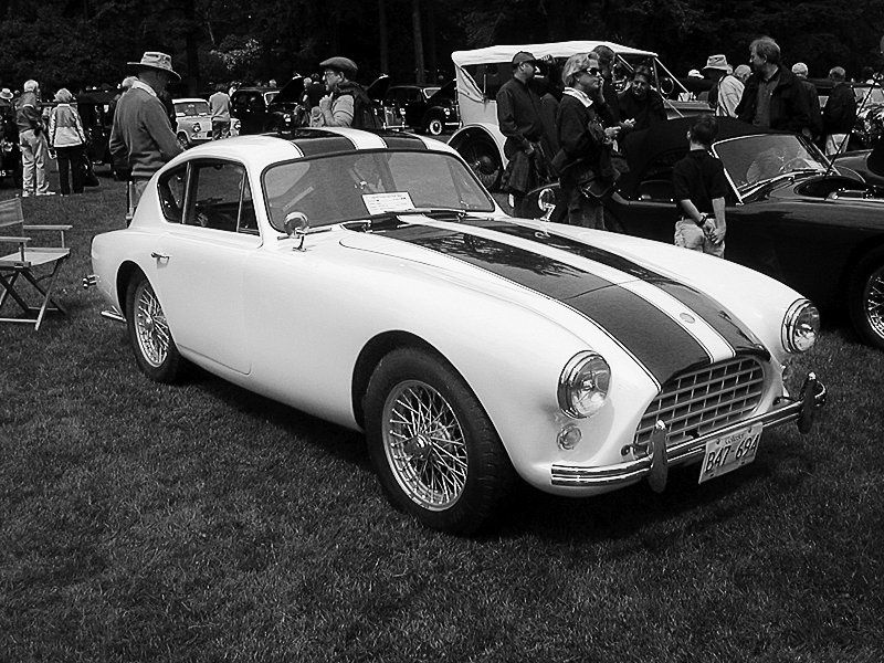 AC Aceca Photo by Sandro Menzel